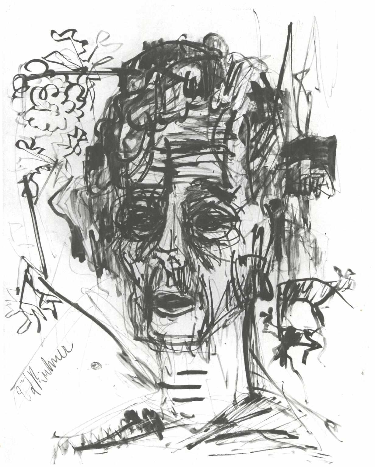 Selfportrait under the influence of morphium